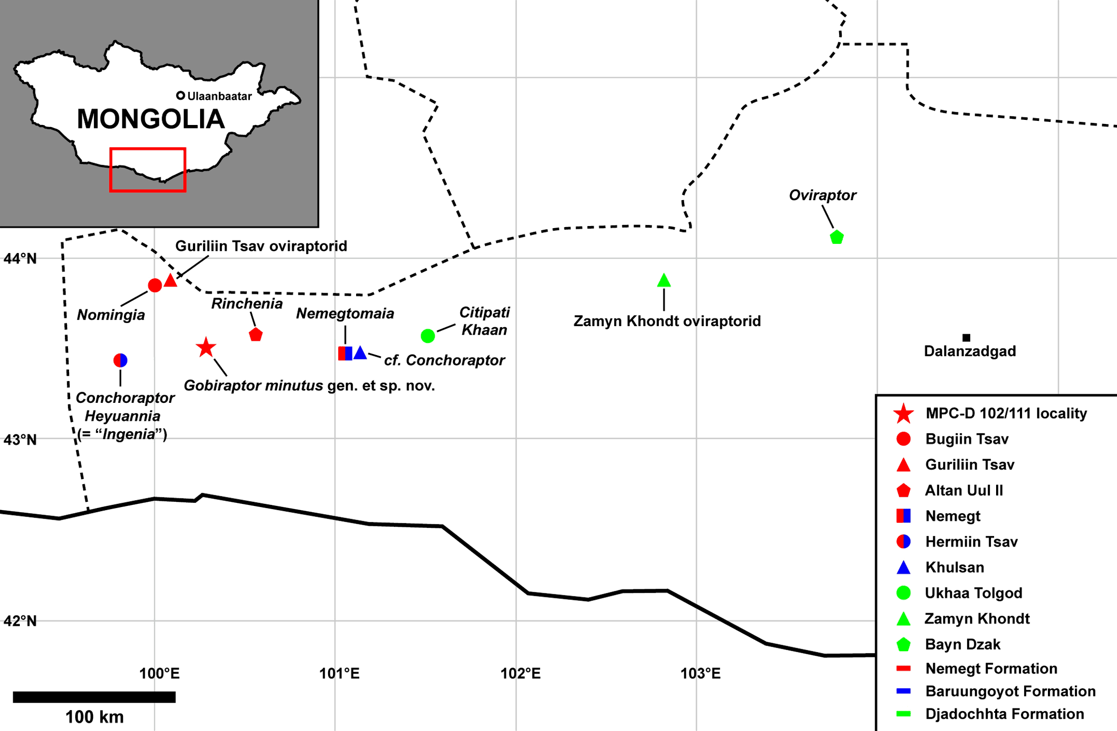 Map showing the occurrences of oviraptorids in the southern Gobi Desert of Mongolia. The map was generated using Simplemappr ( before modified.